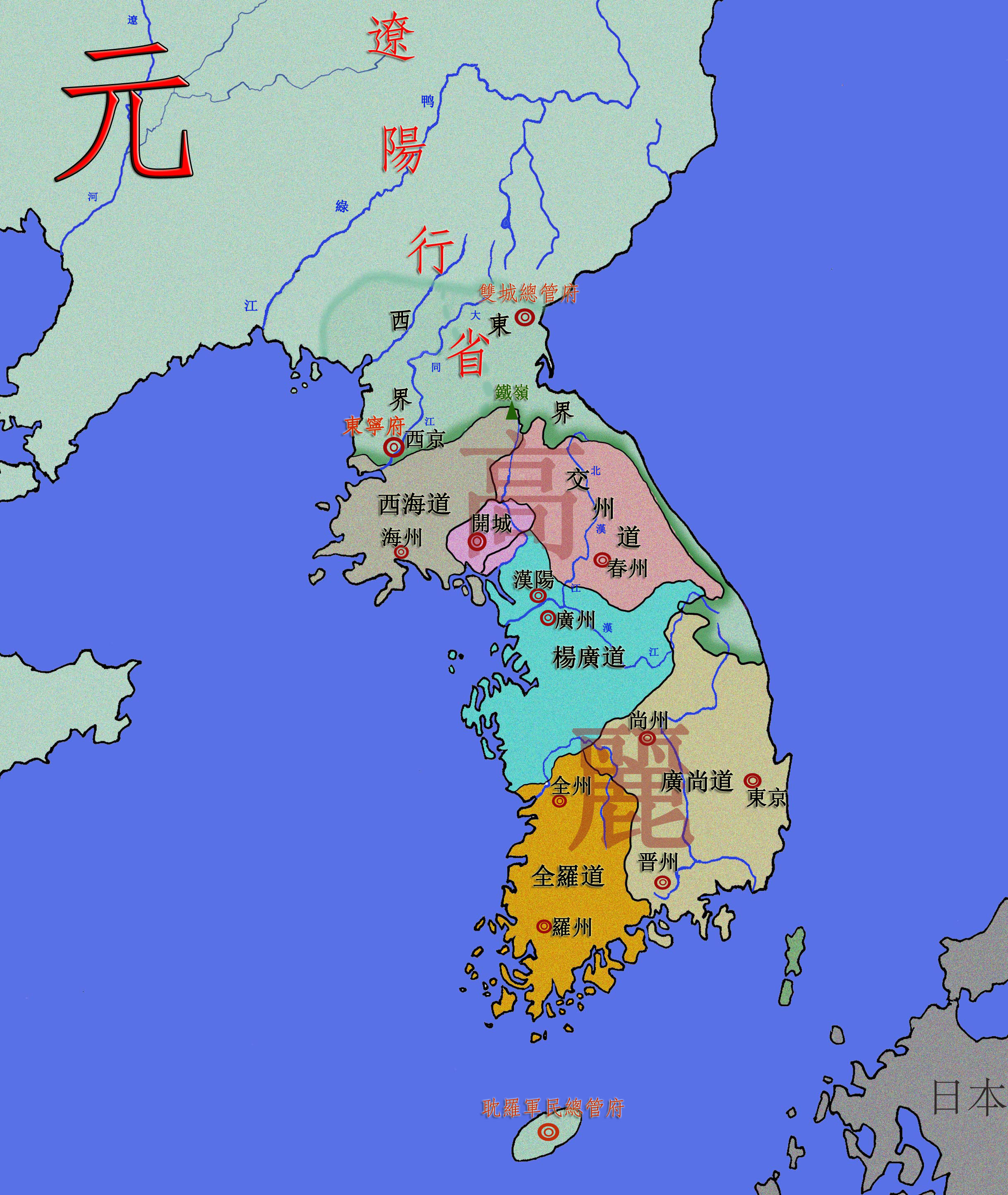 Map of Goryeo.jpg